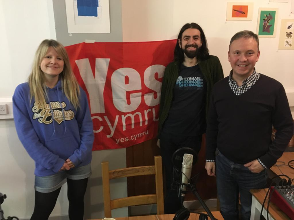 Radio Yes Cymru broadcast, 18 Nov 2018, Caffi Lolfa, Burry Port. Comedians Esyllt Sears, Steffan Alun and presenter Siôn Jobbins